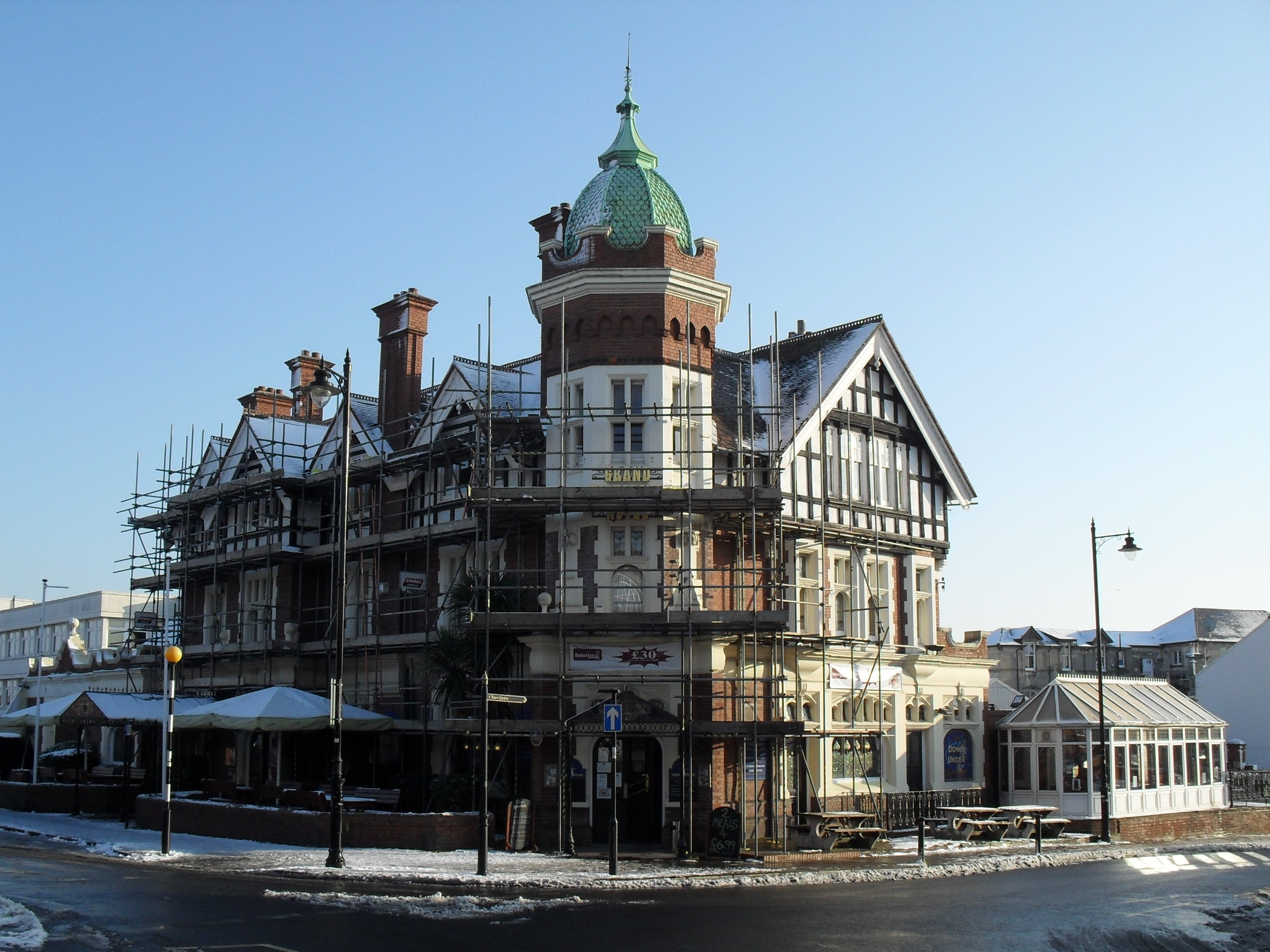 Grand Central hotel, bar and club, Oxford Road, Worthing, West Sussex, England. This Queen Anne-style building opposite Worthing railway station was built in 1898 by F. Wheeler. Listed at Grade II by English Heritage (IoE Code 468833)